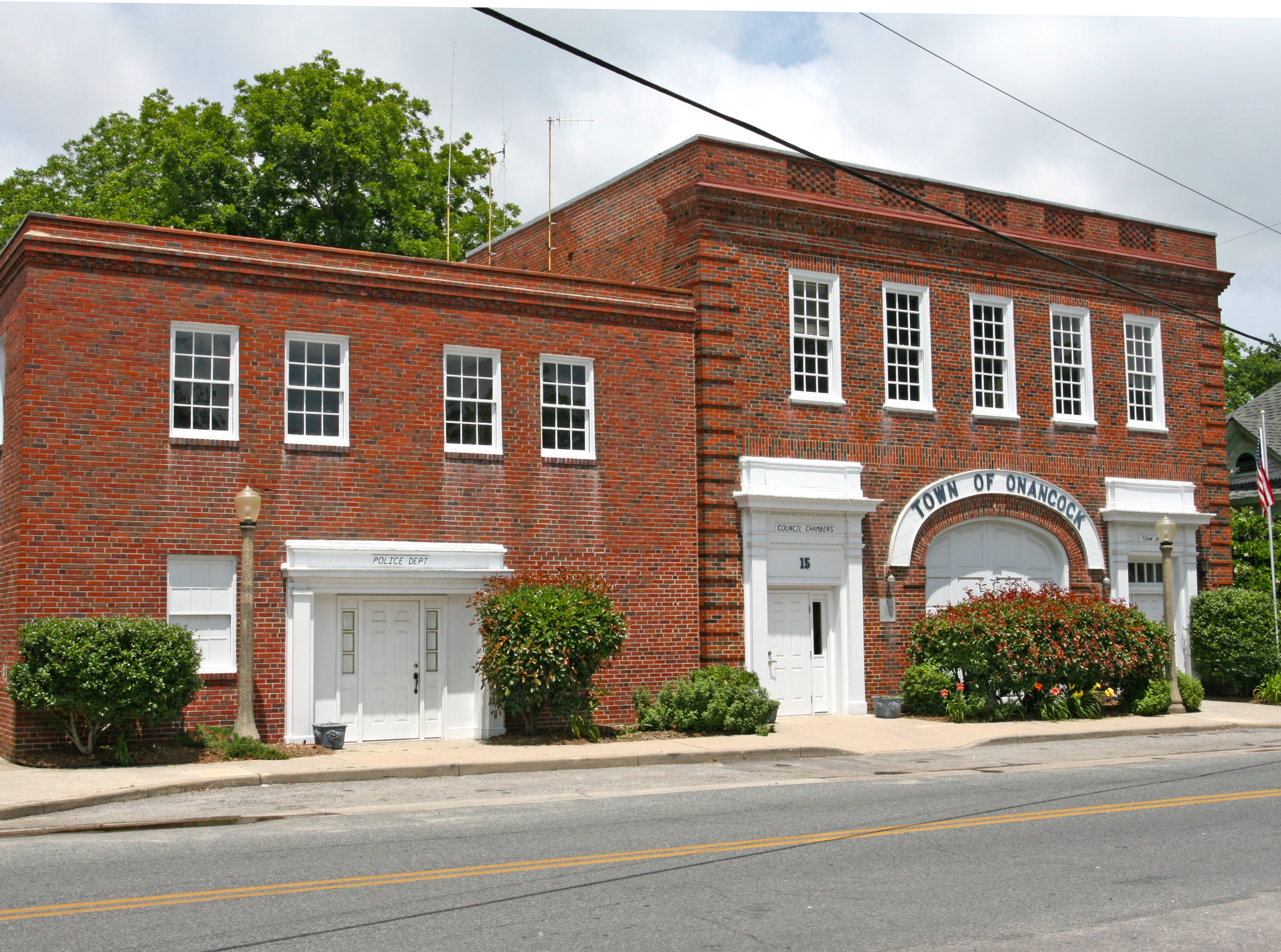 The town hall and police department in Onancock are housed in the town's historic fire hall.